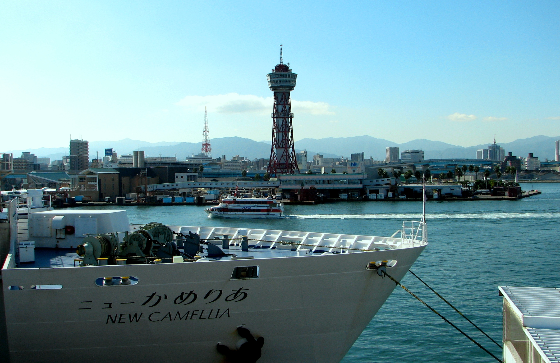 Port of Hakata. Canon PowerShot S2 IS